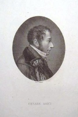 Portrait of the Italian poet Cesare Arici